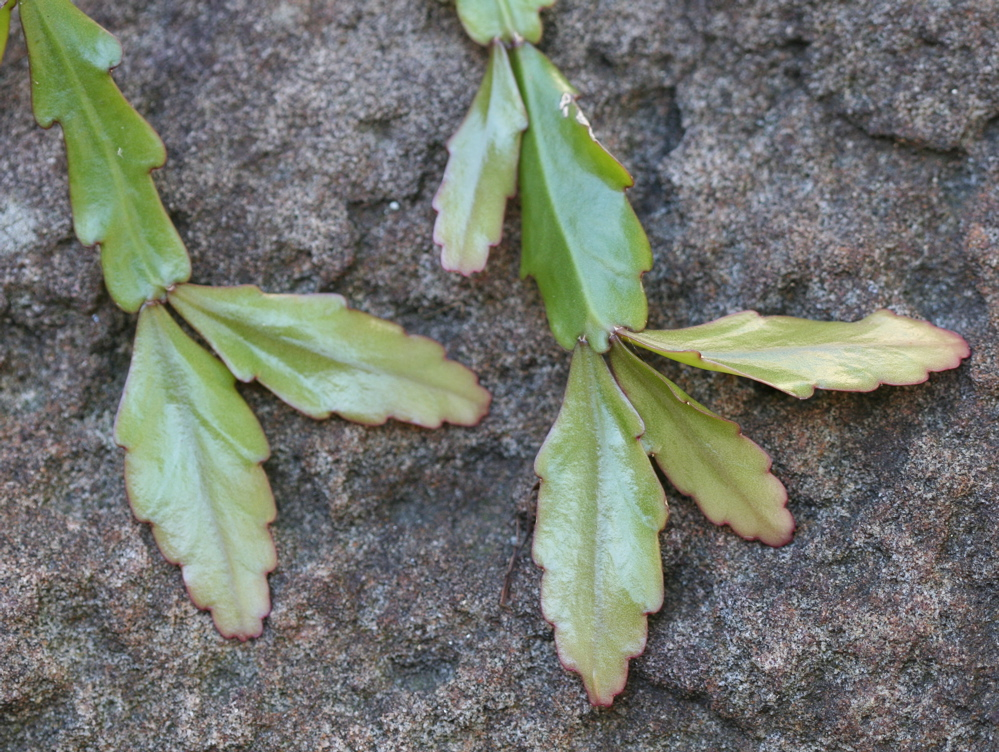 Image of the cactus Rhipsalis species